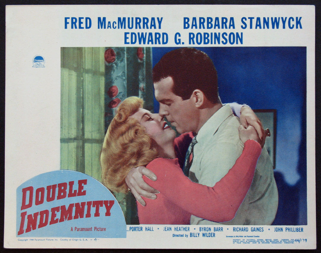 Lobby Card for the 1944 film Double Indemnity The item has "Copyright 1944 Paramount Pictures" in the corner, but the copyright was not renewed.